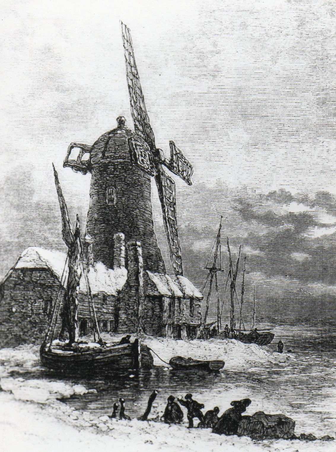 "Mill near Havant, Langston Harbour, Hants" by E Duncan, published 1869. Reproduced as a postcard by Southampton University Industrial Archaeology Society, courtesy of Hampshire County Record Office. Picture first published on front cover of "Once a Week" magazine, 16-1-1869.